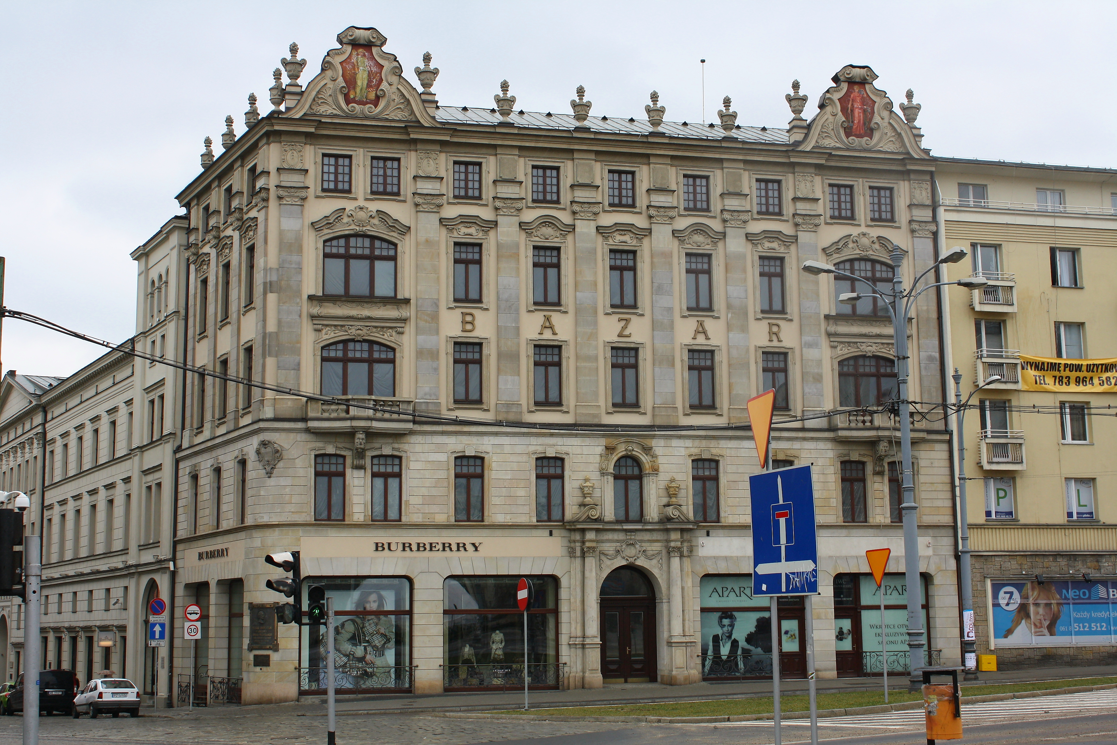 Hotel Bazar in Poznan, Poland, March 2010